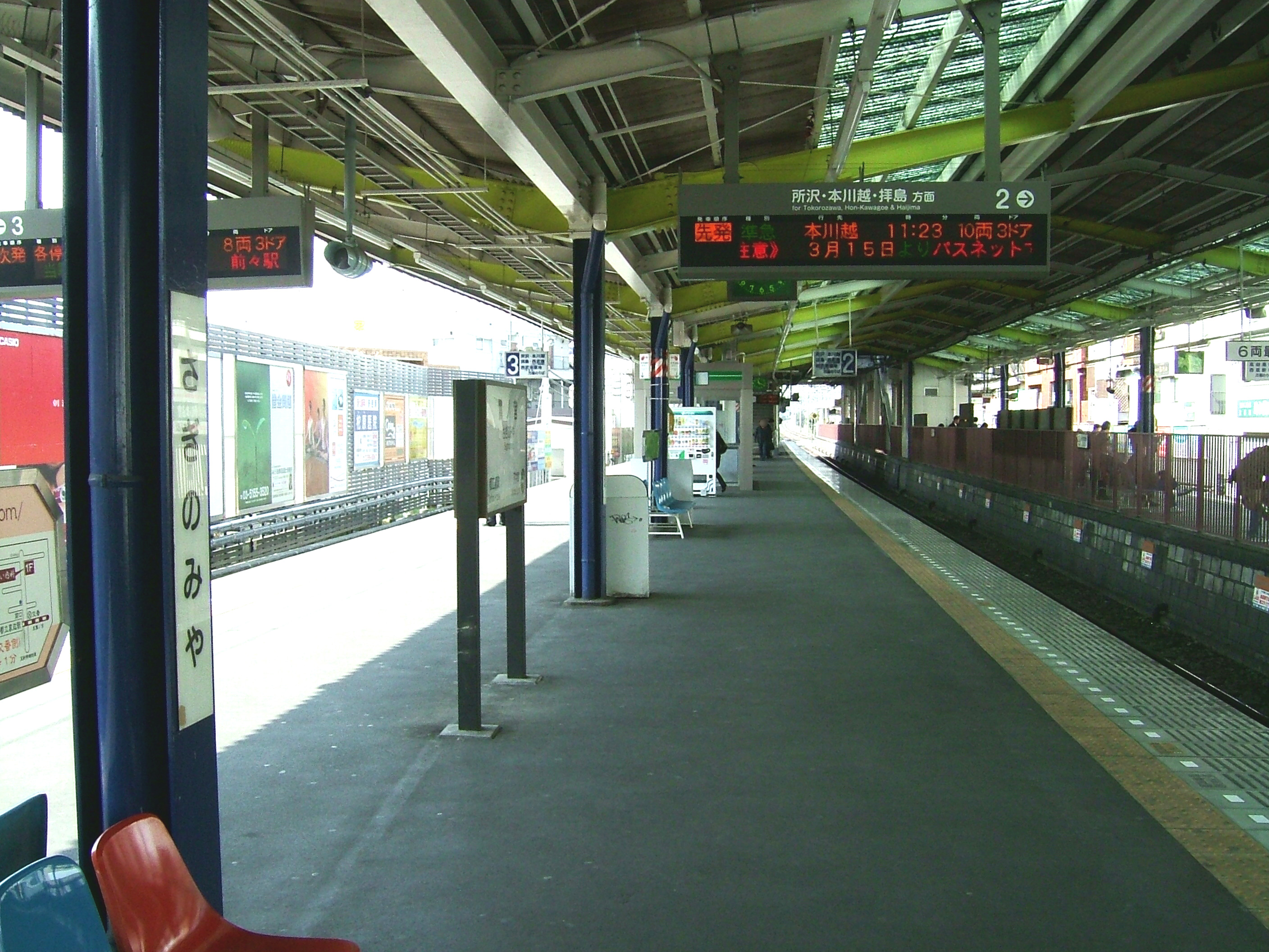 Saginomiya Station platform (Seibu Shinjuku Line)